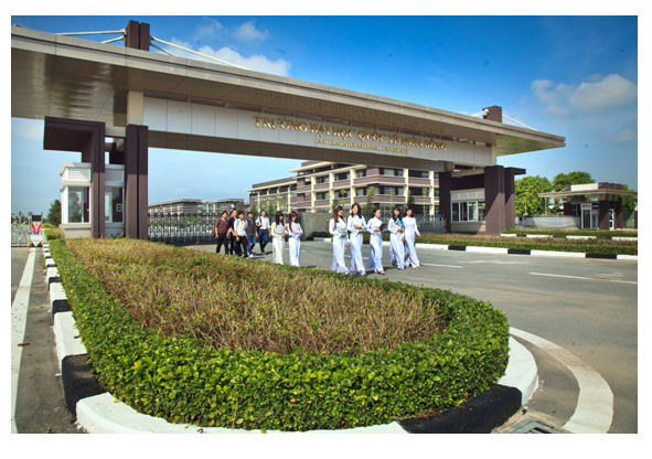 Eastern International University